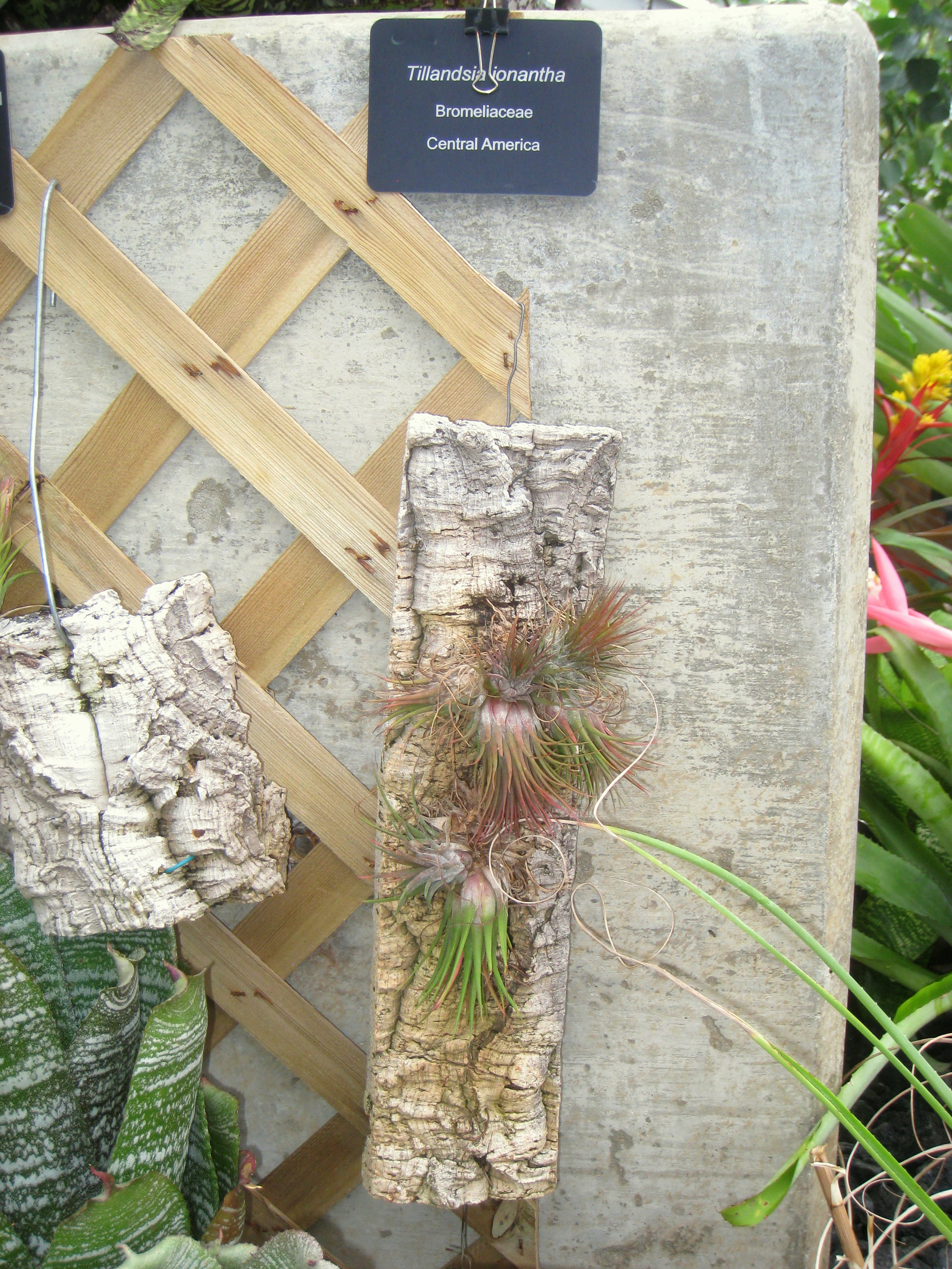 Tillandsia ionantha. Specimen in the conservatory - Matthaei Botanical Gardens, University of Michigan, 1800 N Dixboro Road, Ann Arbor, Michigan, USA.